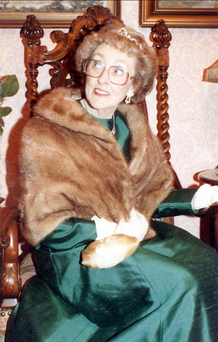 Birgit Anderson RidderstedtPlace: Åkerbyvägen 84, Täby, Sweden